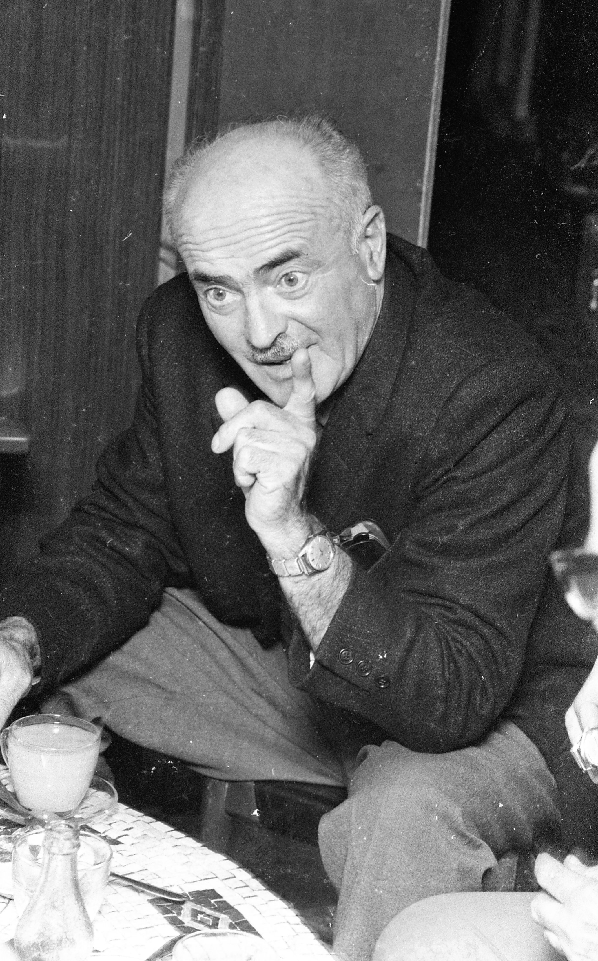 A talk show at Tzavta with Yitzhak Ben-Aharon, Shulamit Aloni, and Minister Barzilai